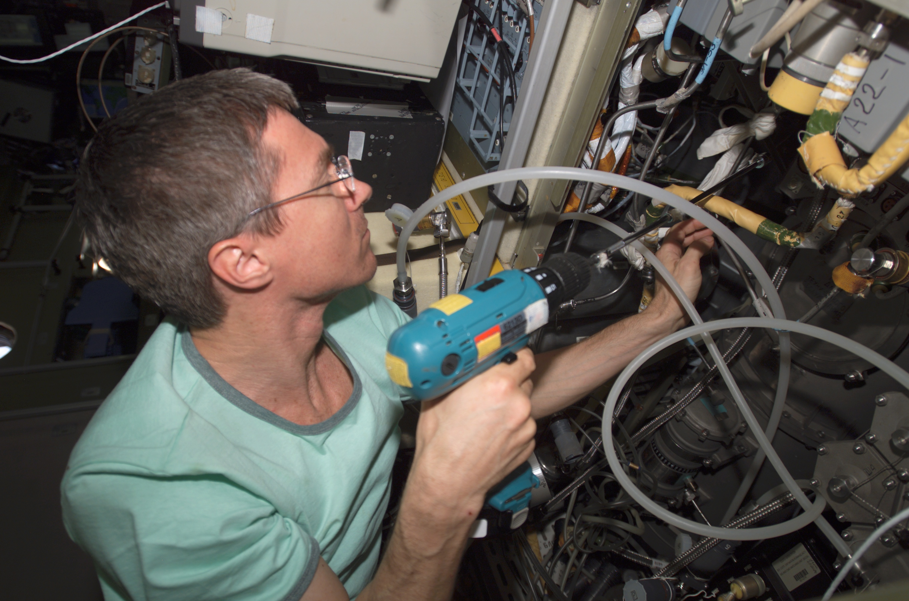 Cosmonaut Sergei Krikalev, Expedition 11 commander, uses a power tool as he makes repairs to the Elektron oxygen generator in the Zvezda Service Module of the International Space Station